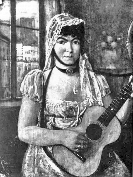 Portrait of murderess Sophie Charlotte Elisabeth Ursinus wearing early nineteenth century "empire" fashions and playing a guitar.